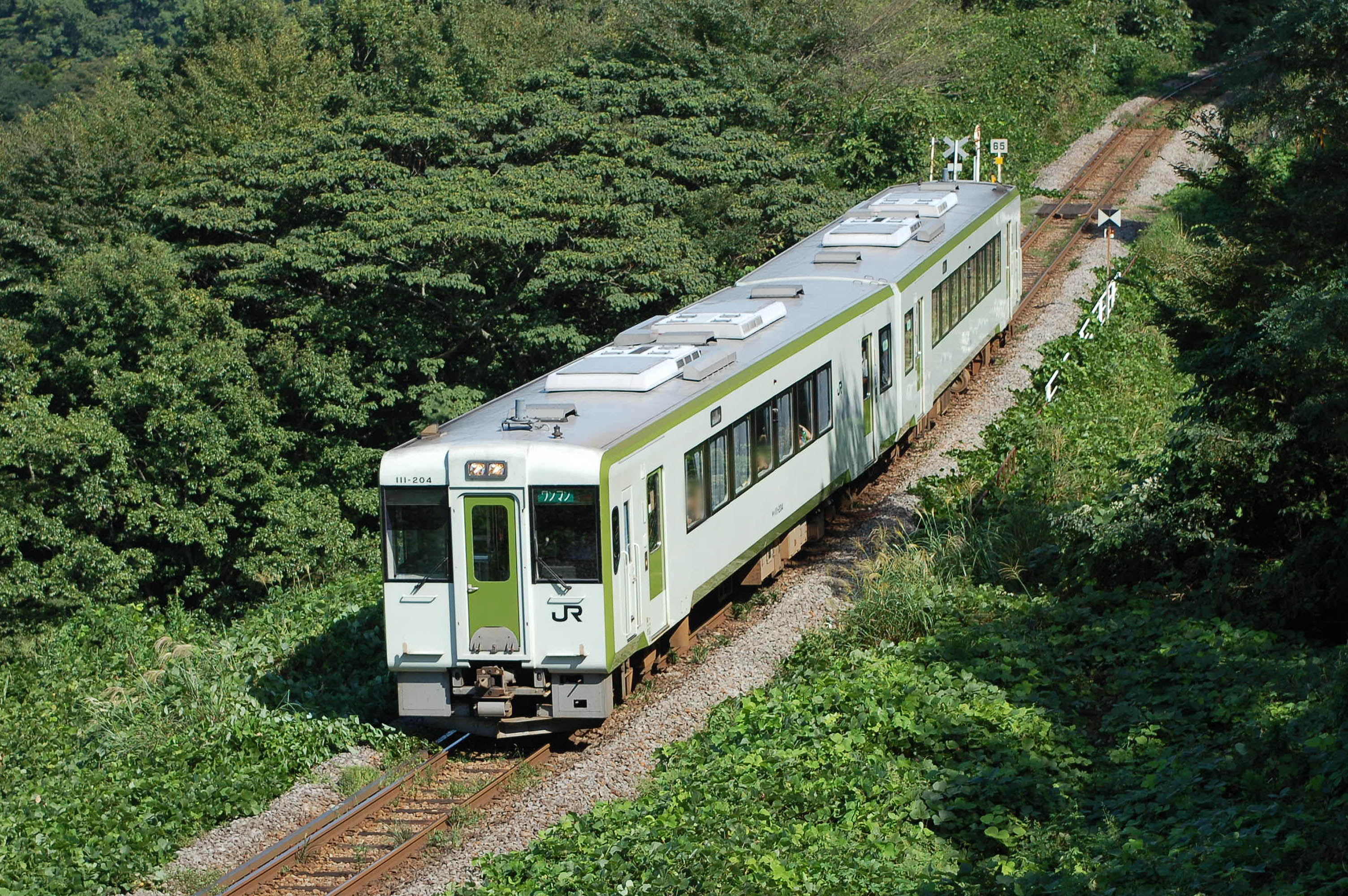 JR East KiHa 110 series 2-car DMU led by KiHa 111-204 on the Hachiko Line near Yorii Station